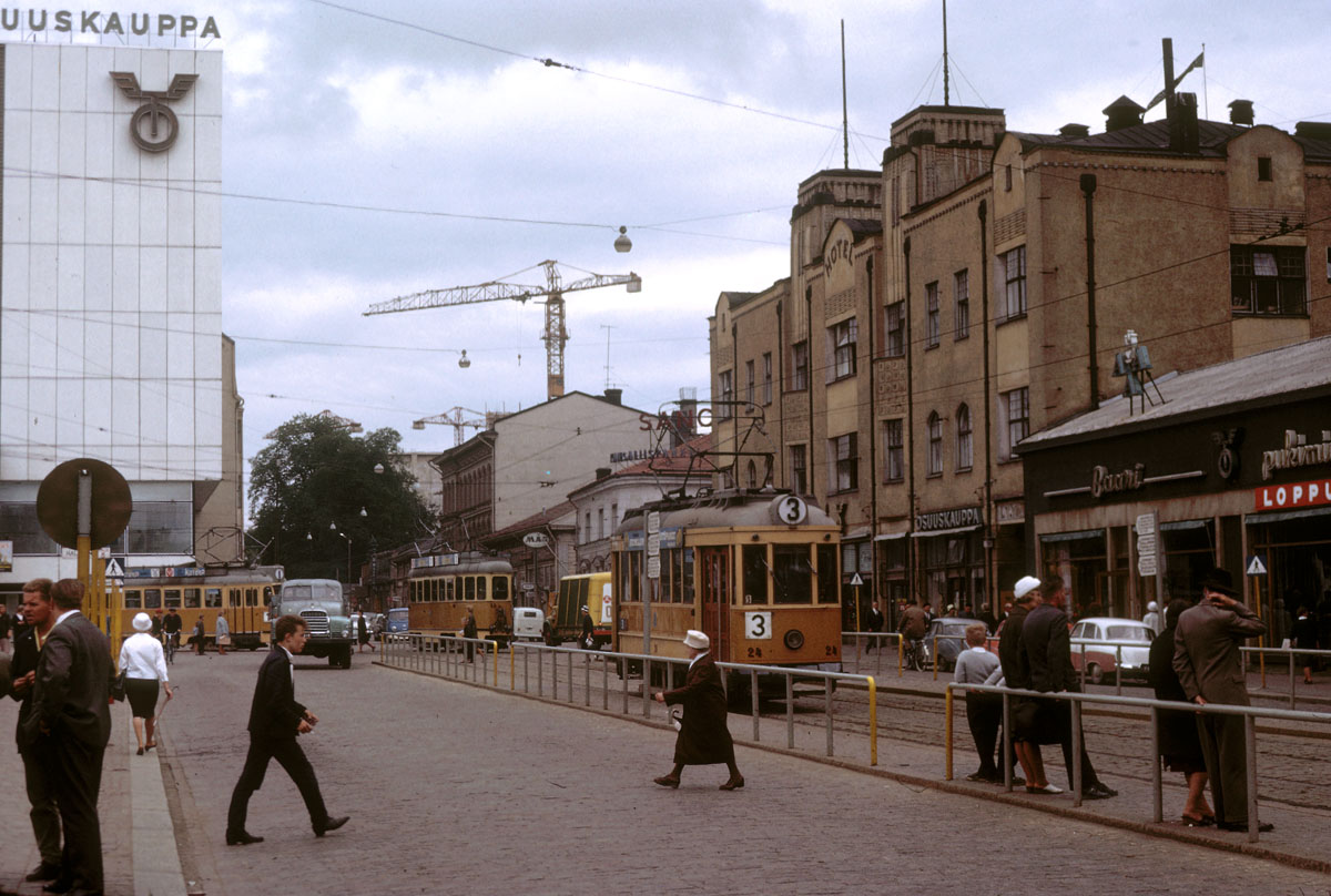 Trams in Turku 1963